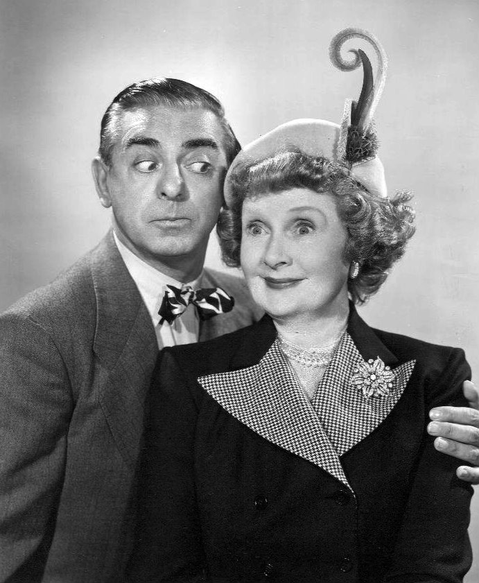 Publicity photo of Eddie Cantor and Billie Burke from Cantor's radio show. Burke joined the permanent cast of it in 1948.